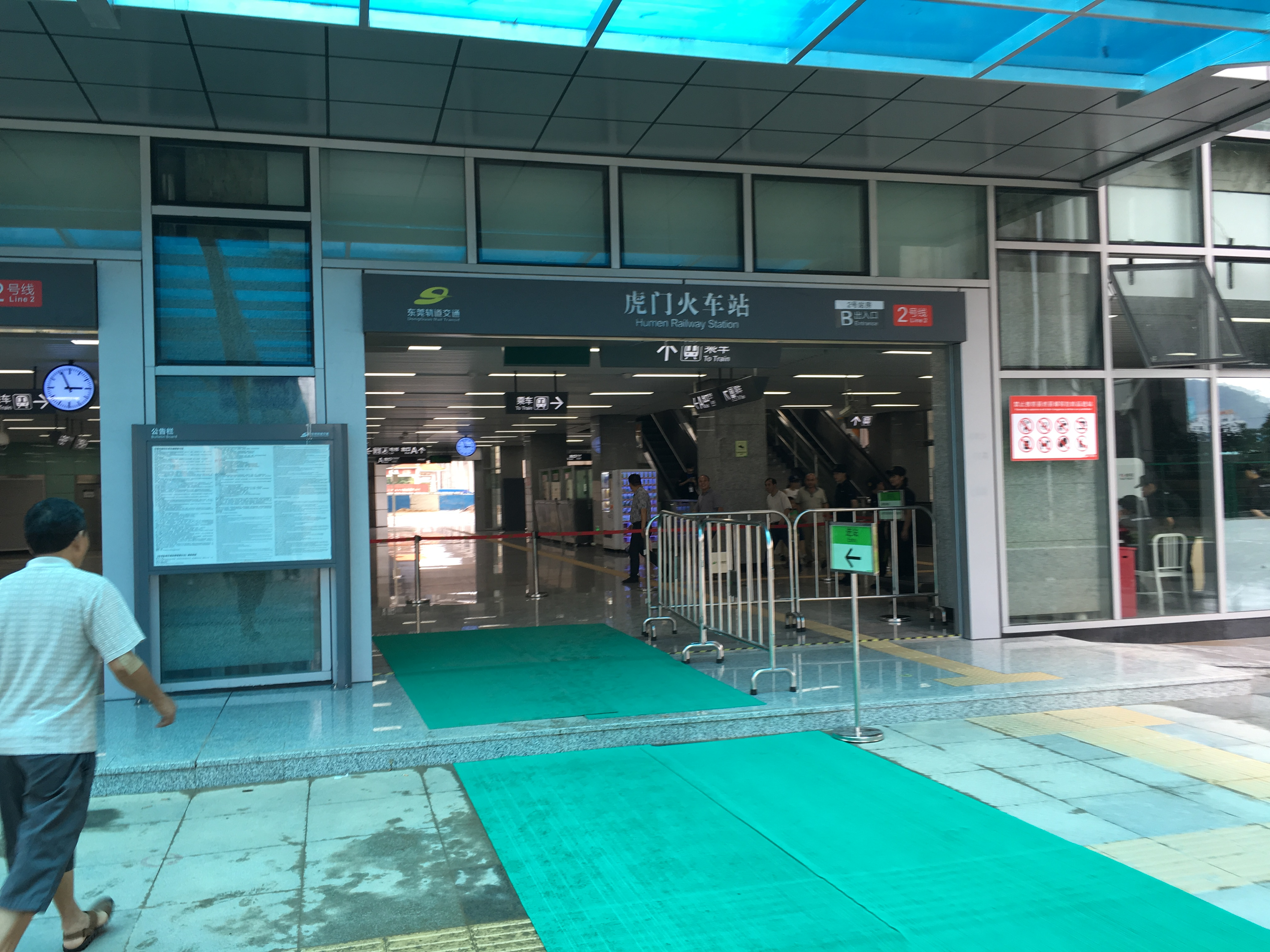 The exit B of Humen Railway Station(Subway)